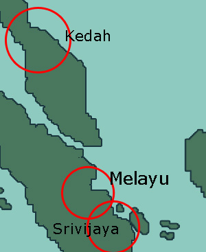 Map of Melayu Kingdom - MelayuKingdom001.jpg